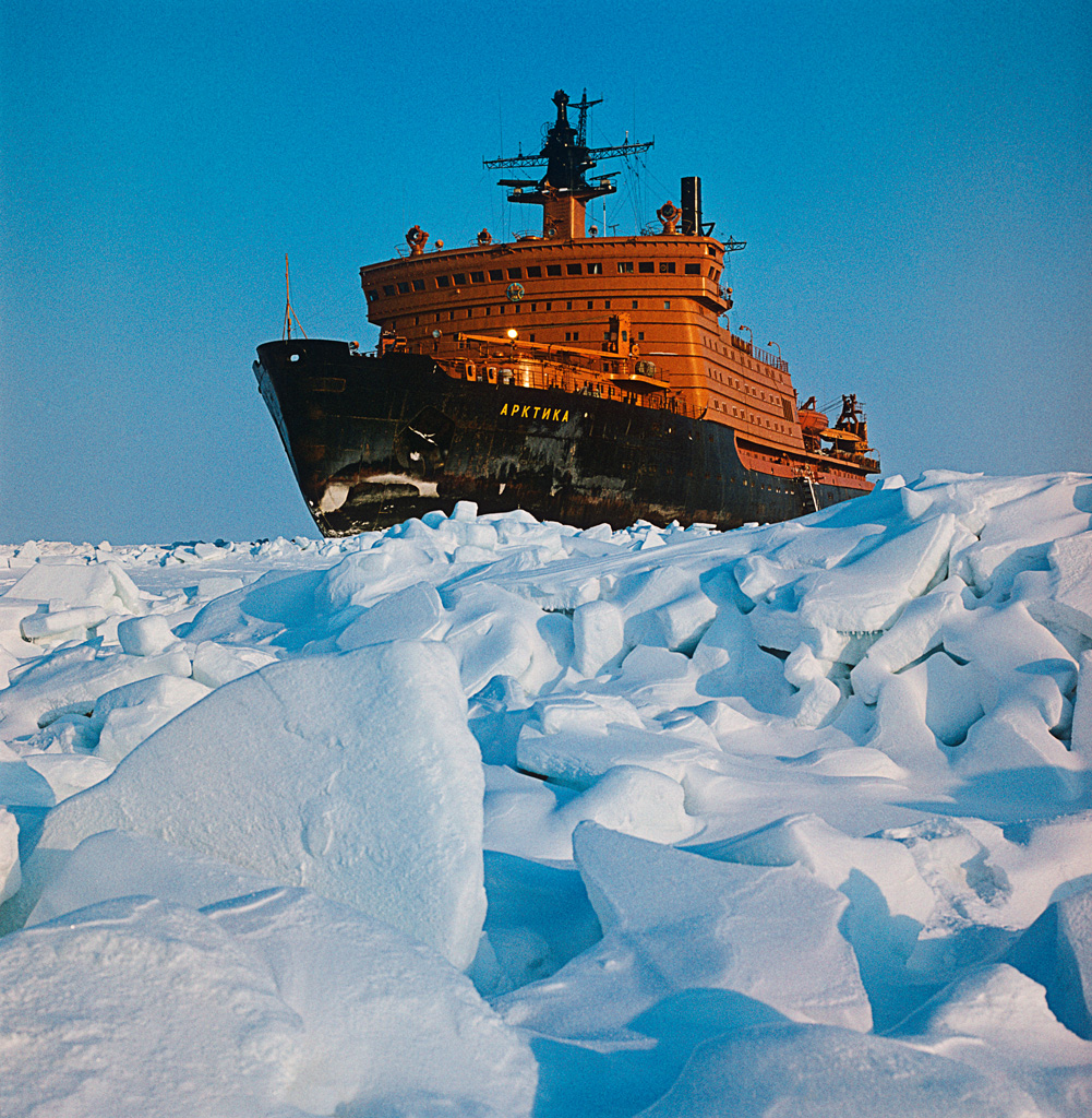 “Nuclear icebreaker Arktika”. The nuclear-powered icebreaker Arktika in the Kara Sea.